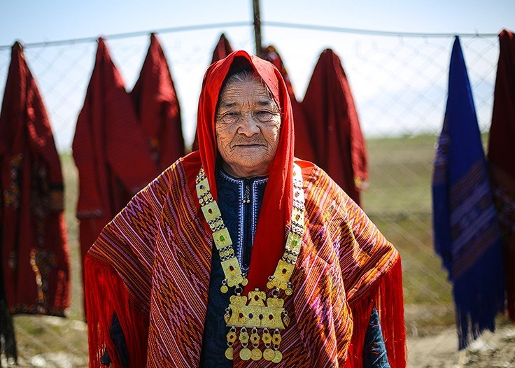 An old woman in bazaar of Bandar Torkaman.